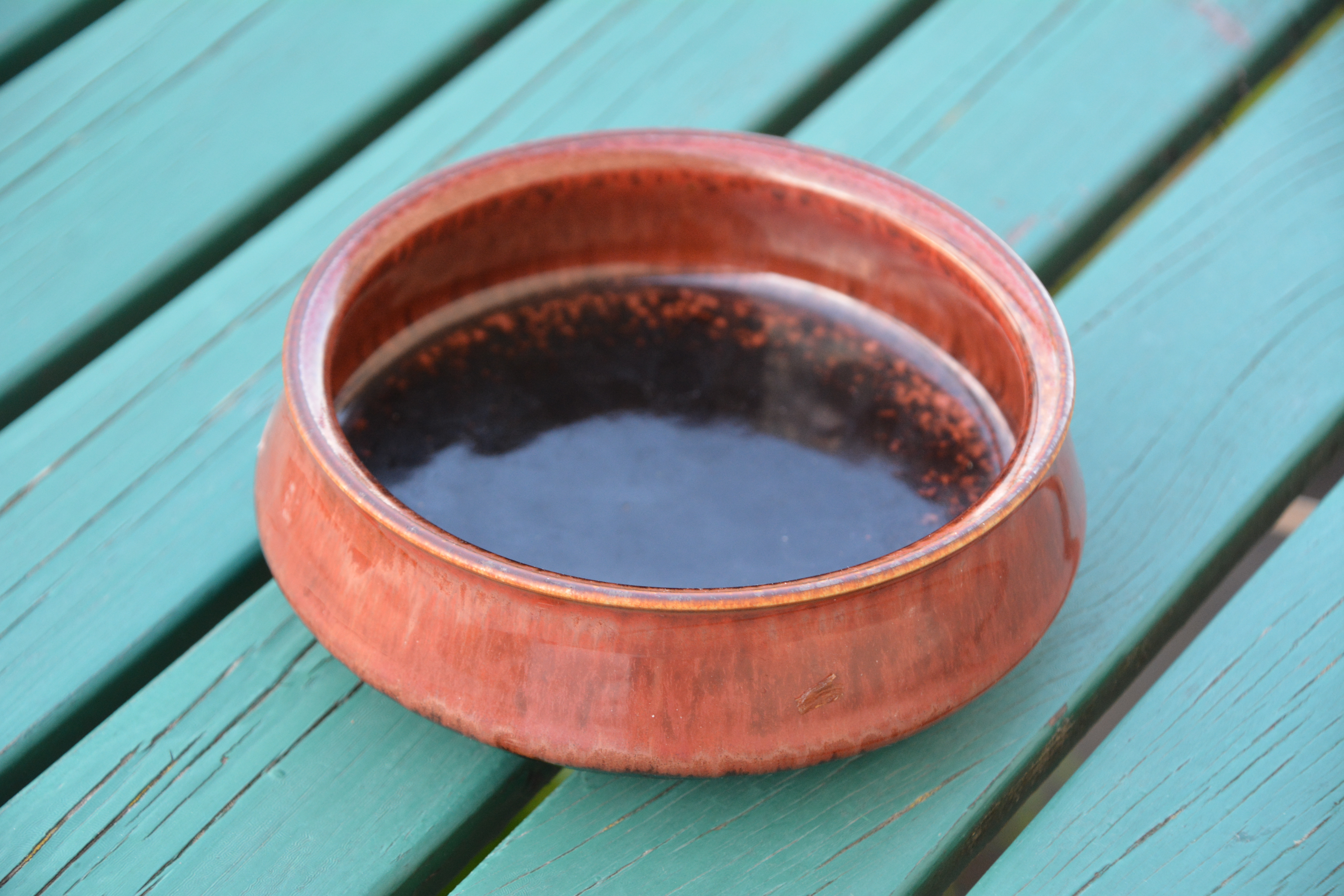 Skål av Carl Harry Stålhane, Rörstand